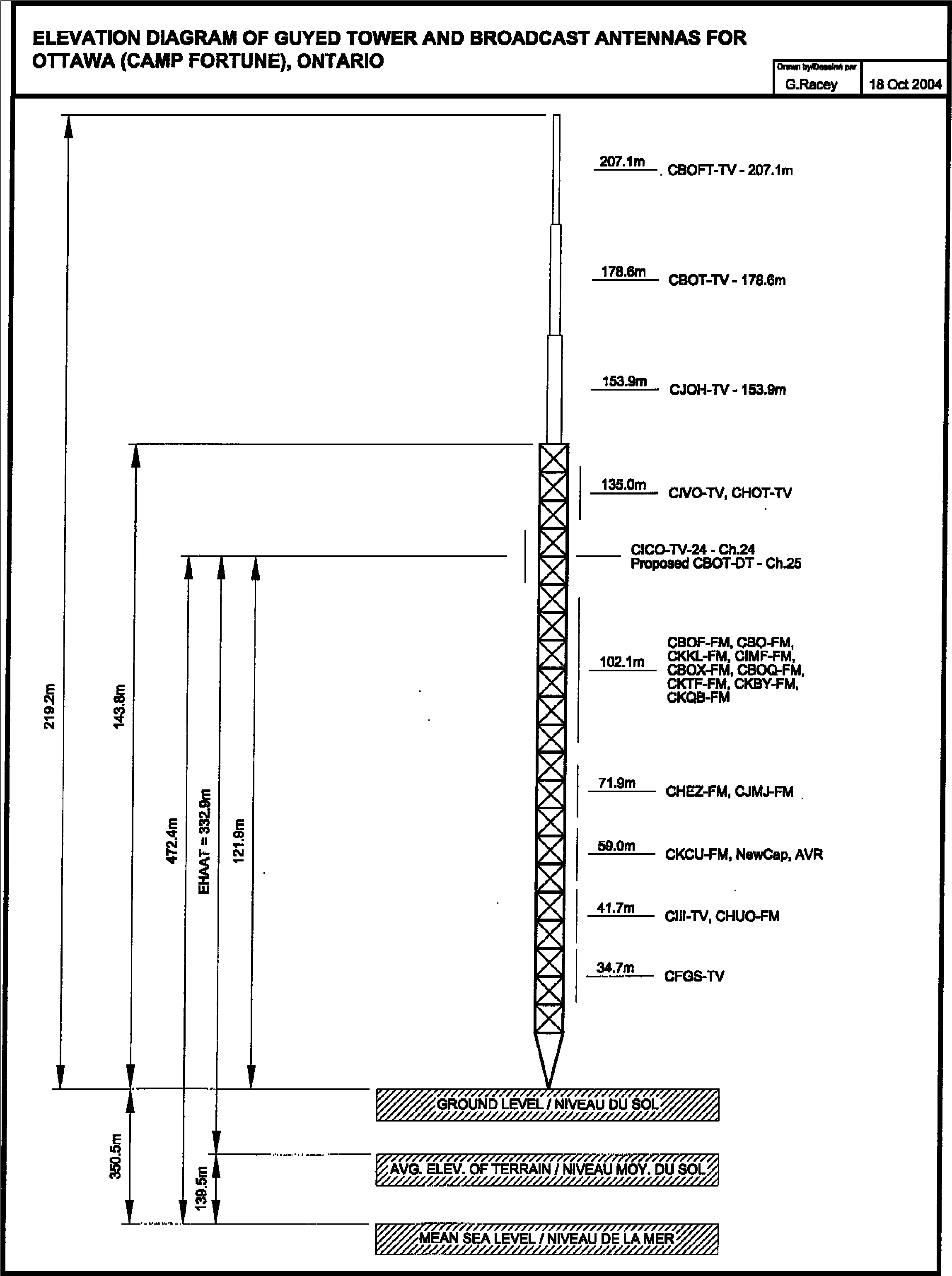 Elevation Diagram of Guyed Tower and Broadcast Antennas for Ottawa (Camp Fortune), Ontario